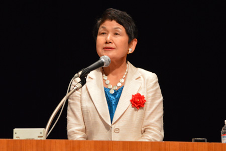 Former Gender Equality Bureau director general Mariko Bando (坂東真理子) addressing a conference in 2013.